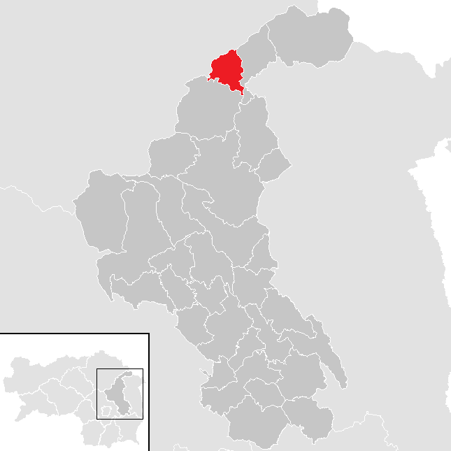 district Weiz